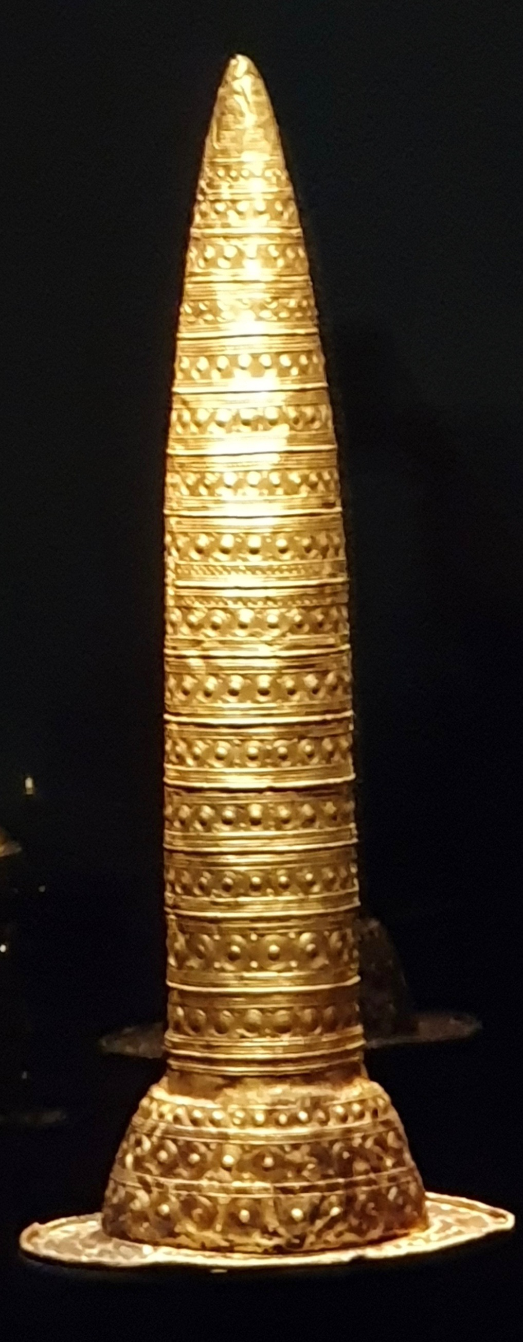 Berliner Goldhut at Neues Museum in Berlin